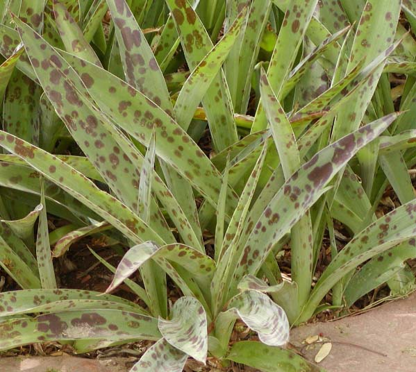 Photo of Manfreda maculosa (Texas tuberose) at the Desert Demonstration Garden in Las Vegas, Nevada